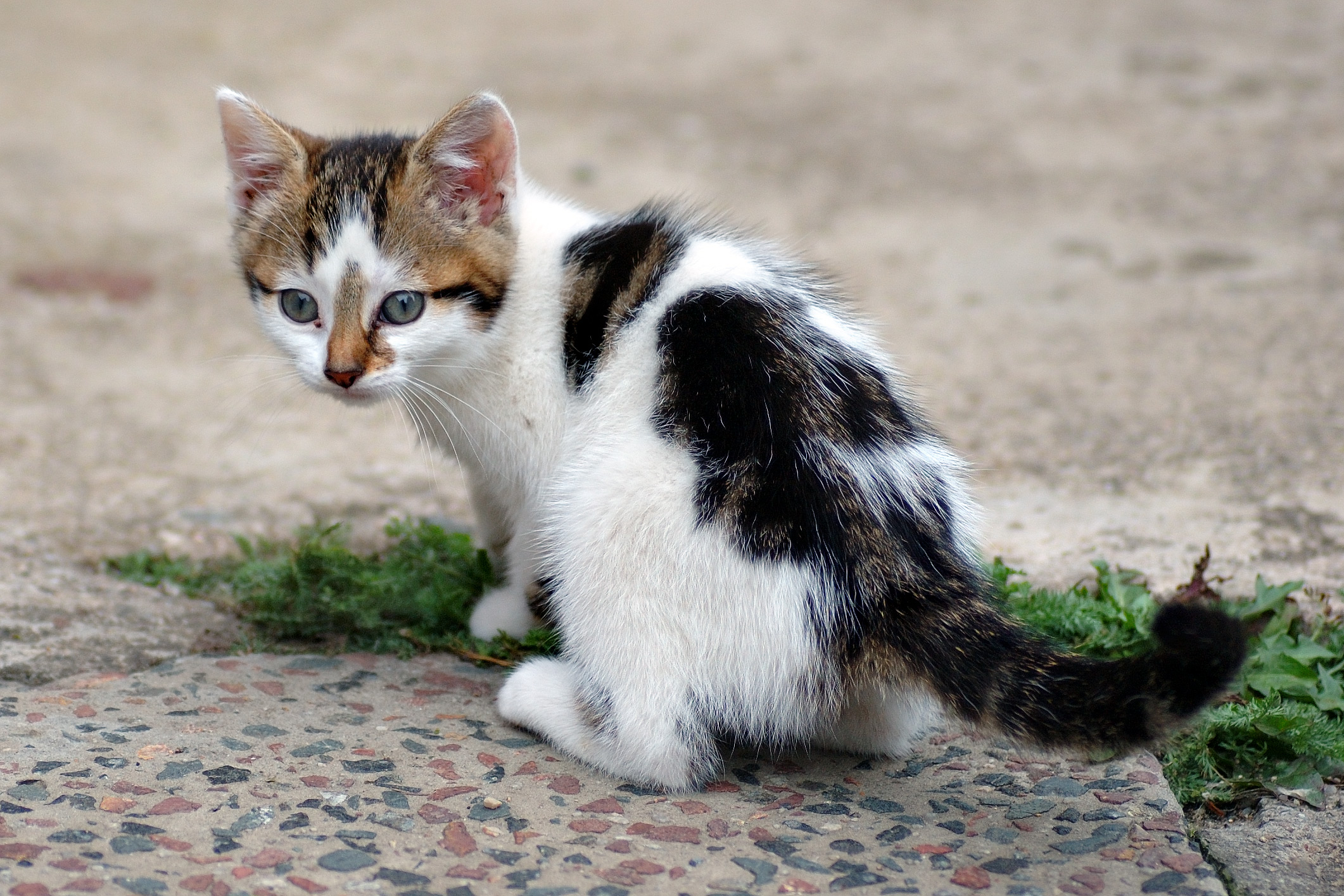 A six-week old kitten.